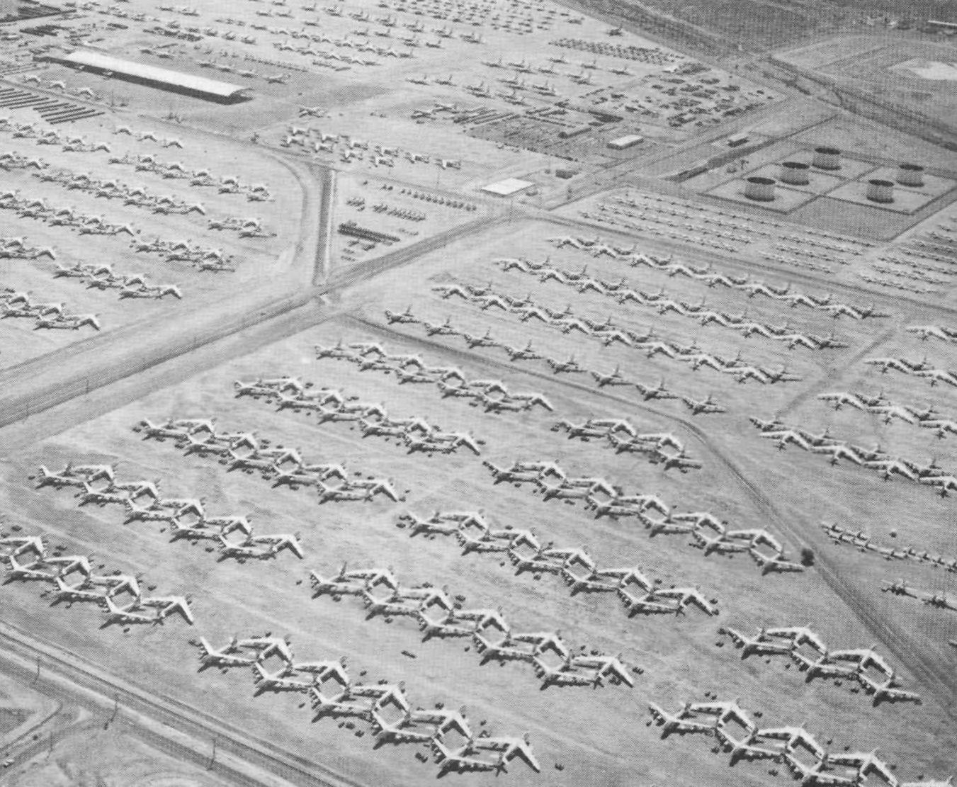 Retired U.S. Air Force Boeing B-47 Stratojet bombers at the MASDC, Davis-Monthan Air Force Base, Arizona (USA), in the 1960s. Some 1,500 B-47s were retired in about six years.